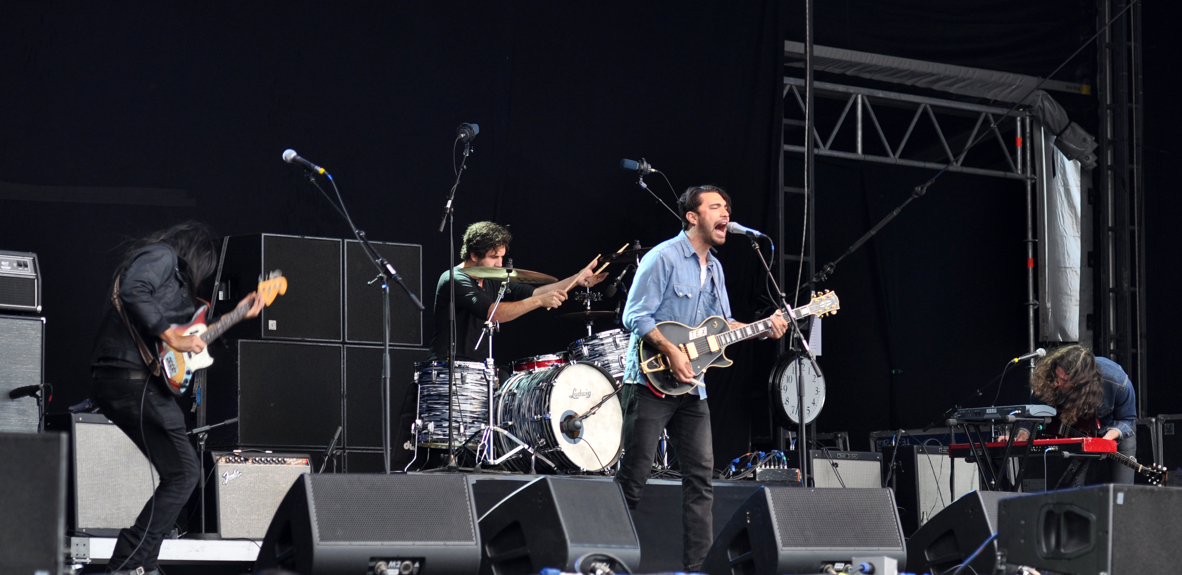 Hanni El Khatib at Rock am Ring 2013